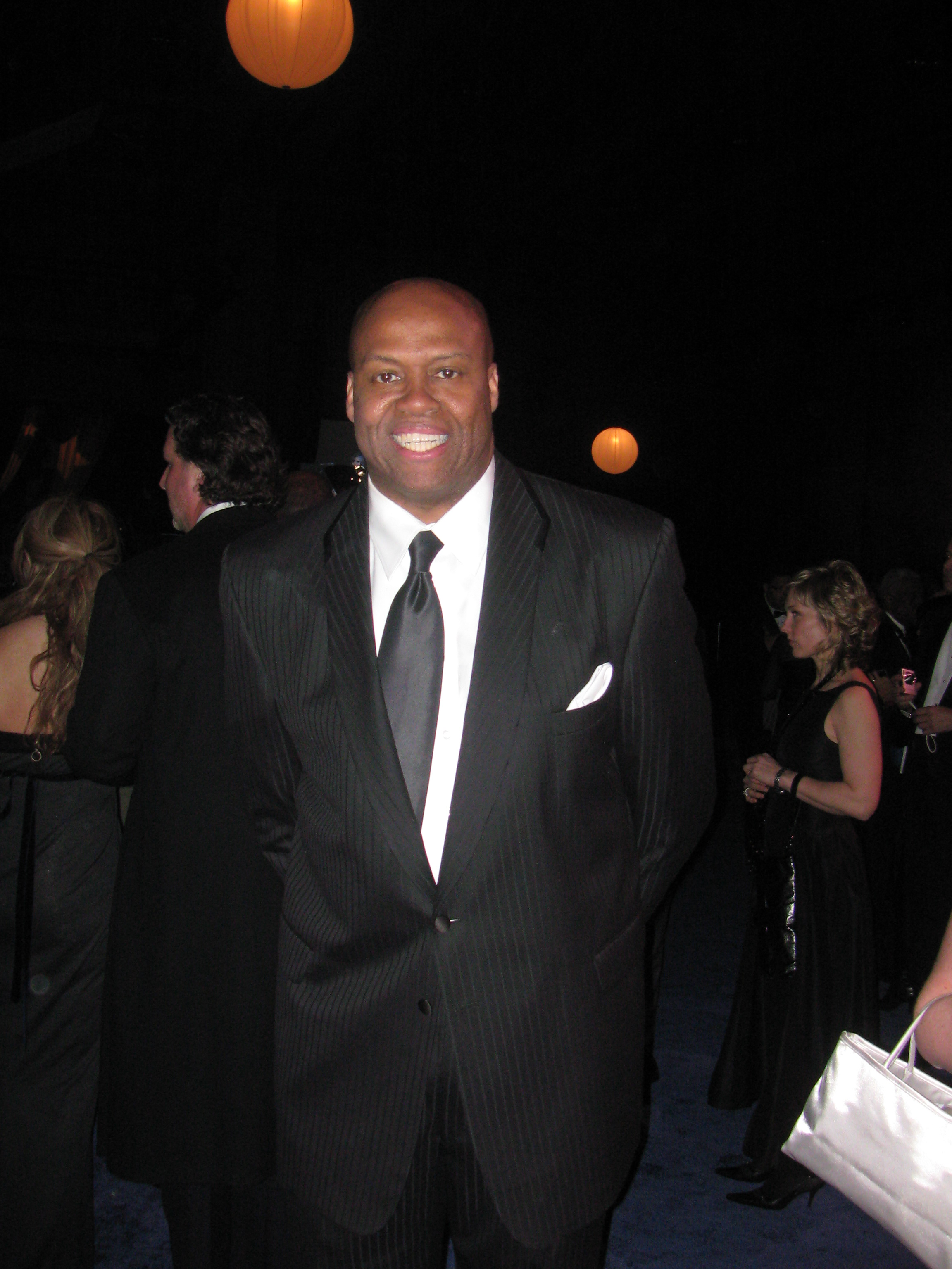 Craig Robinson at the 2009 Obama Home States Inauguration Ball